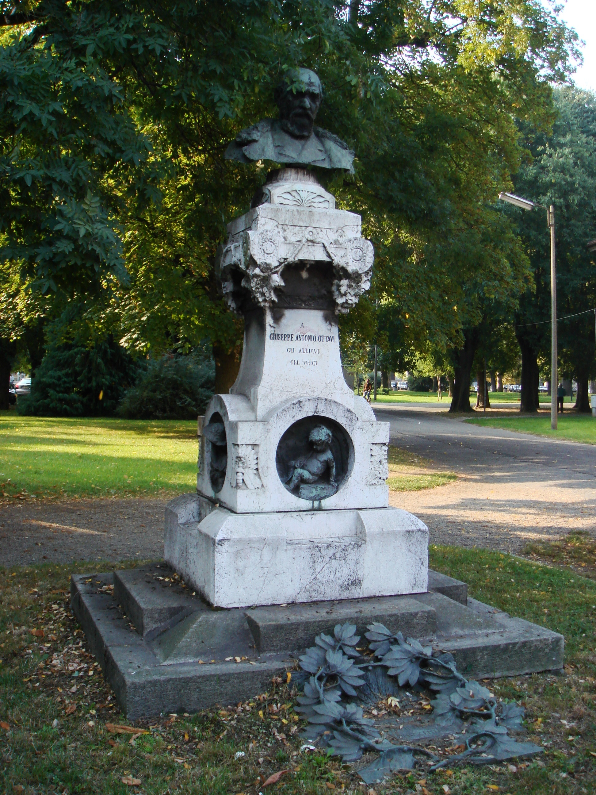 Bust of Giuseppe Antonio Ottavi, Casale Monferrato, Italy. Picture by Stefano Bolognini.